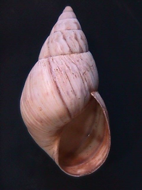 Photo of apertural view of the shell of Orthalicus maracaibensis.